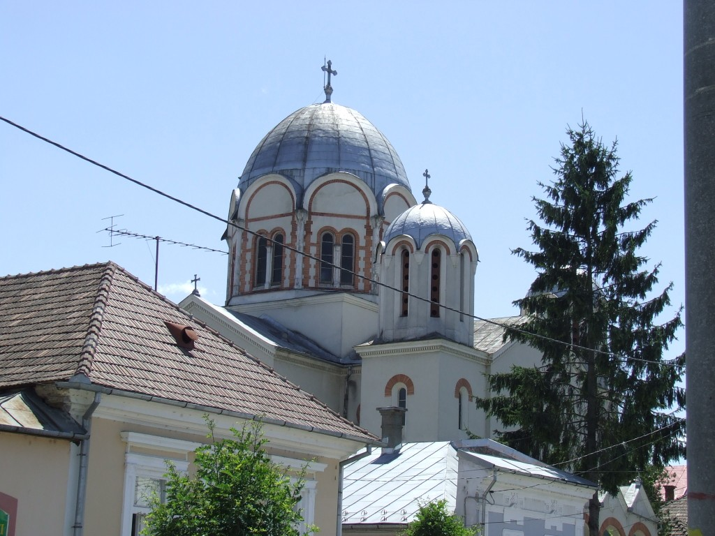 Orthodox church (old Greek-catholic cathedral) in Gherla, Cluj County, Romania